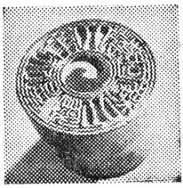 corporate body seal of independence club